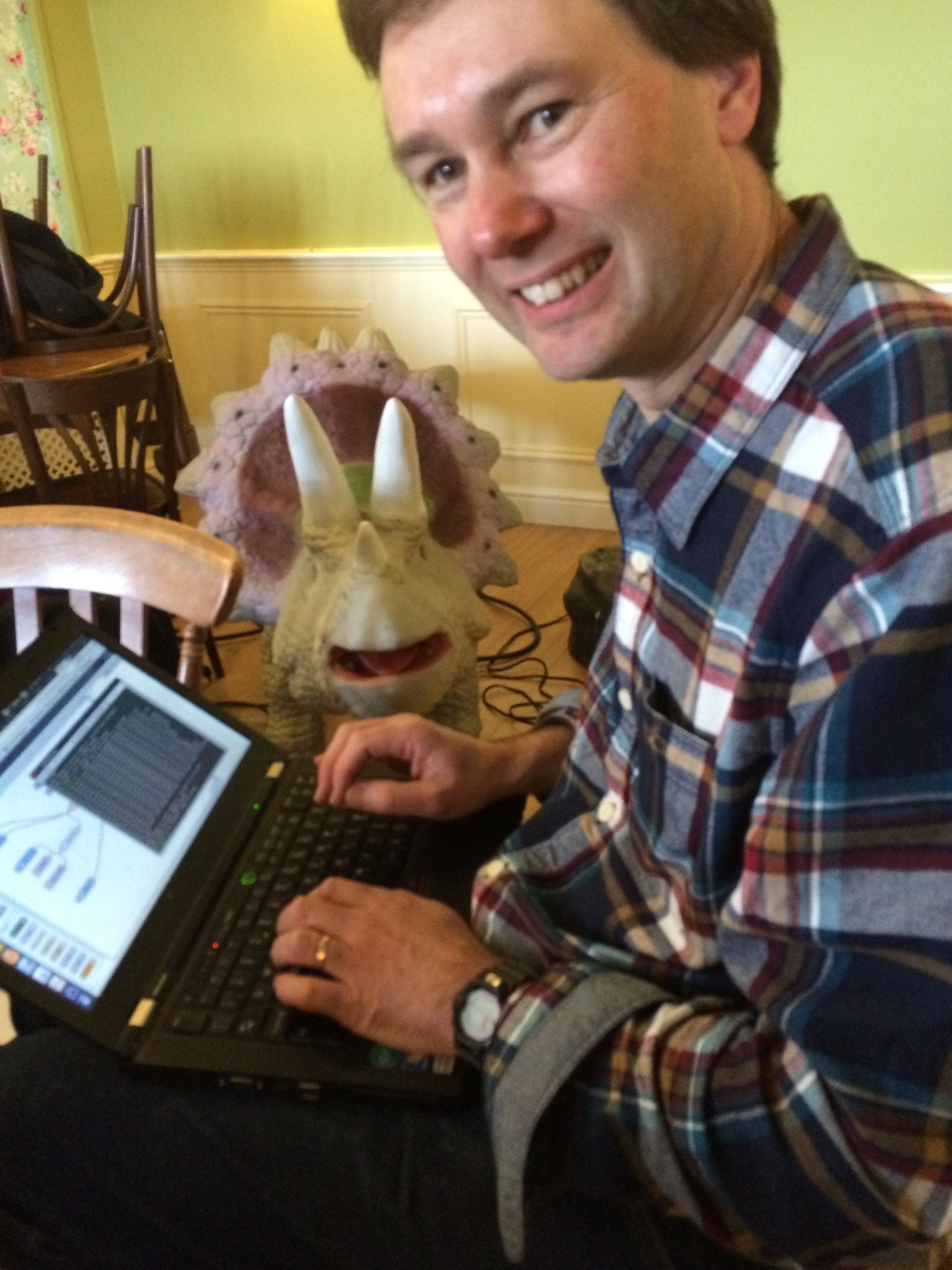 Andy with a Blackgang Chine dinosaur